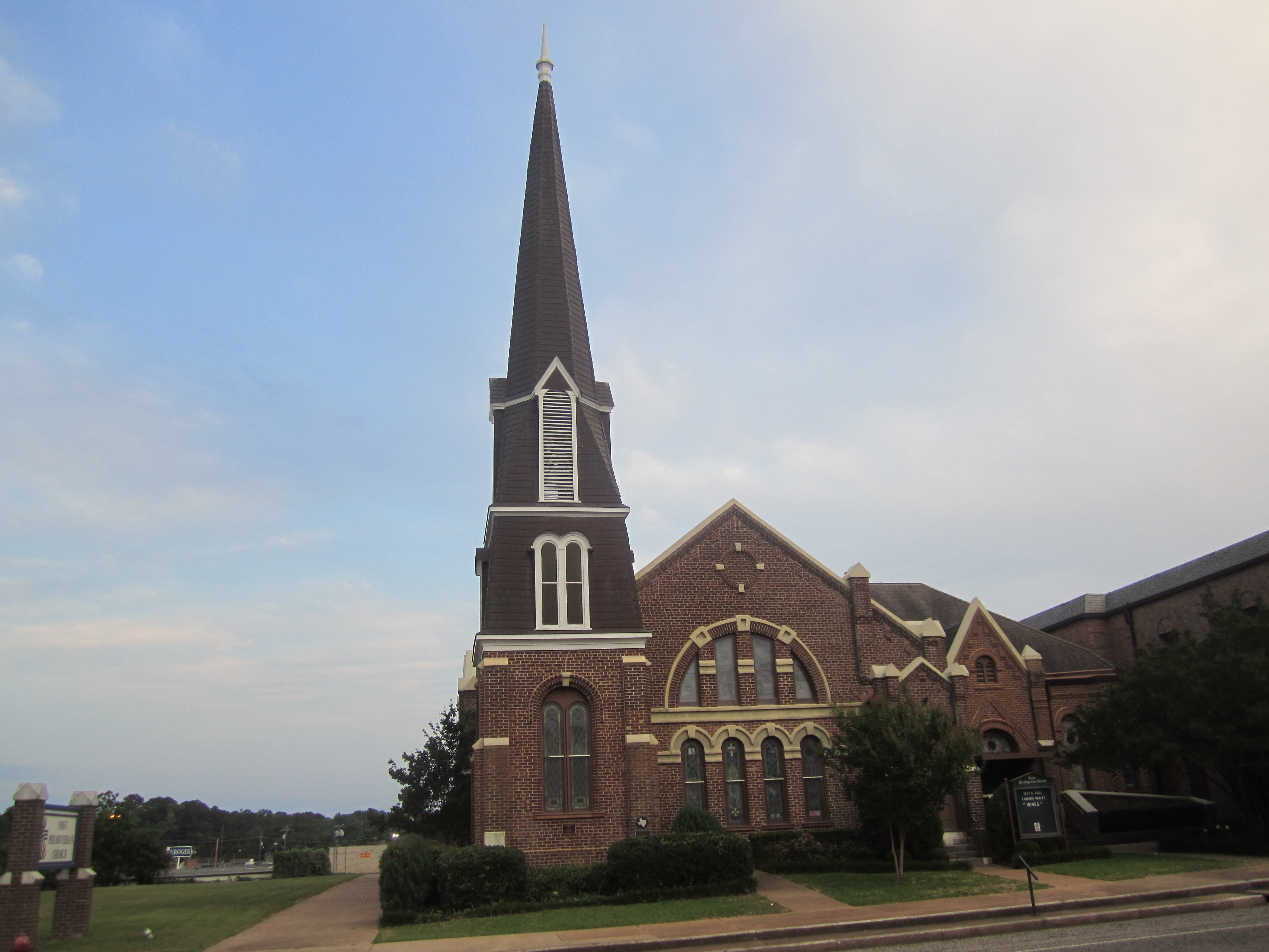 I took photo with Canon camera of First Presbyterian Church in Palestine, TX.